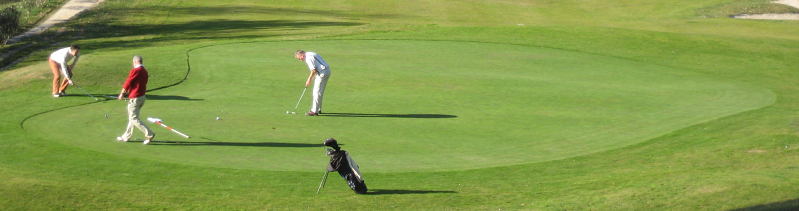 The green of the 18th hole of Girona Golf club